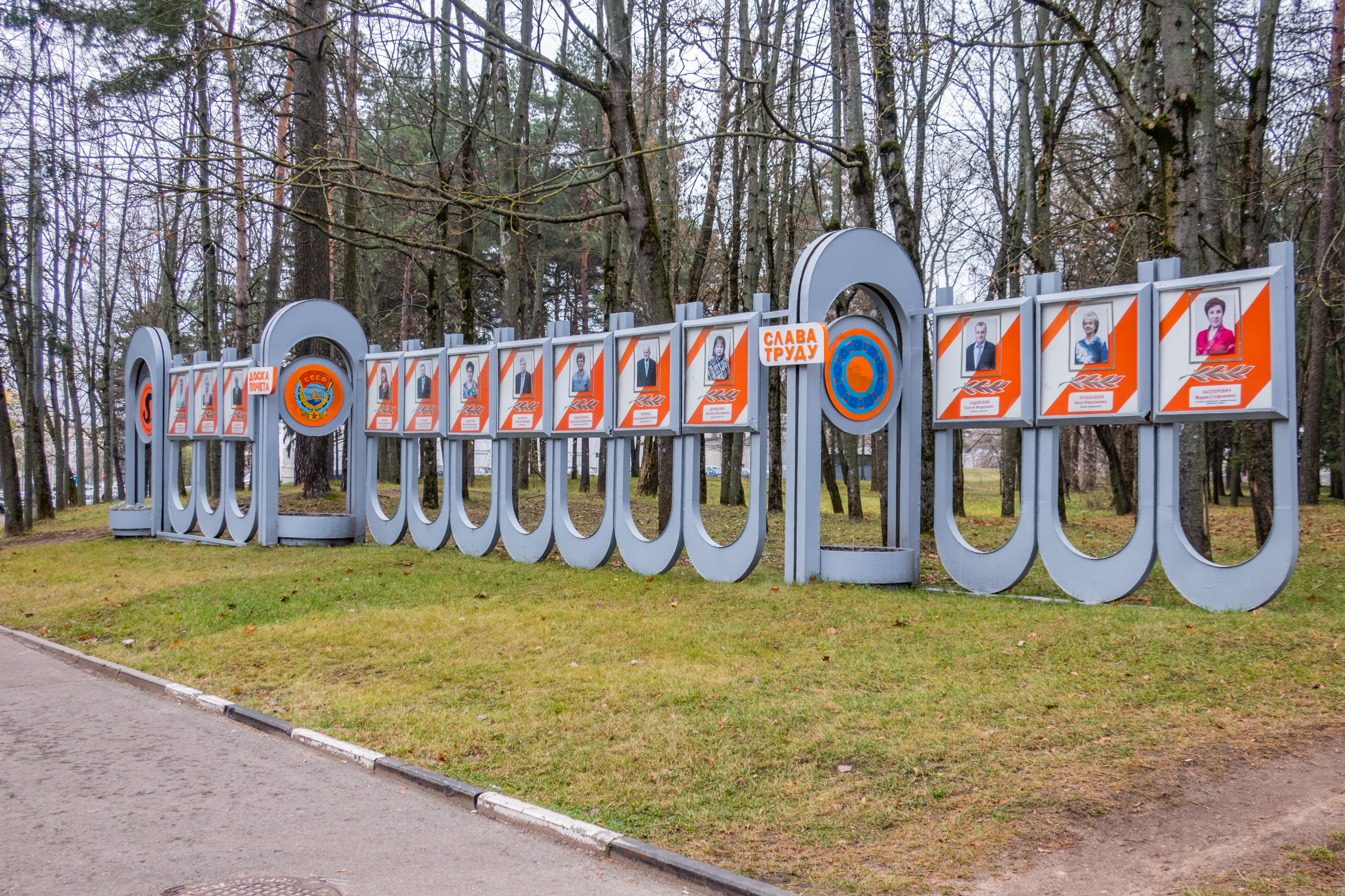 Minsk bearing factory (GPZ-11), Belarus